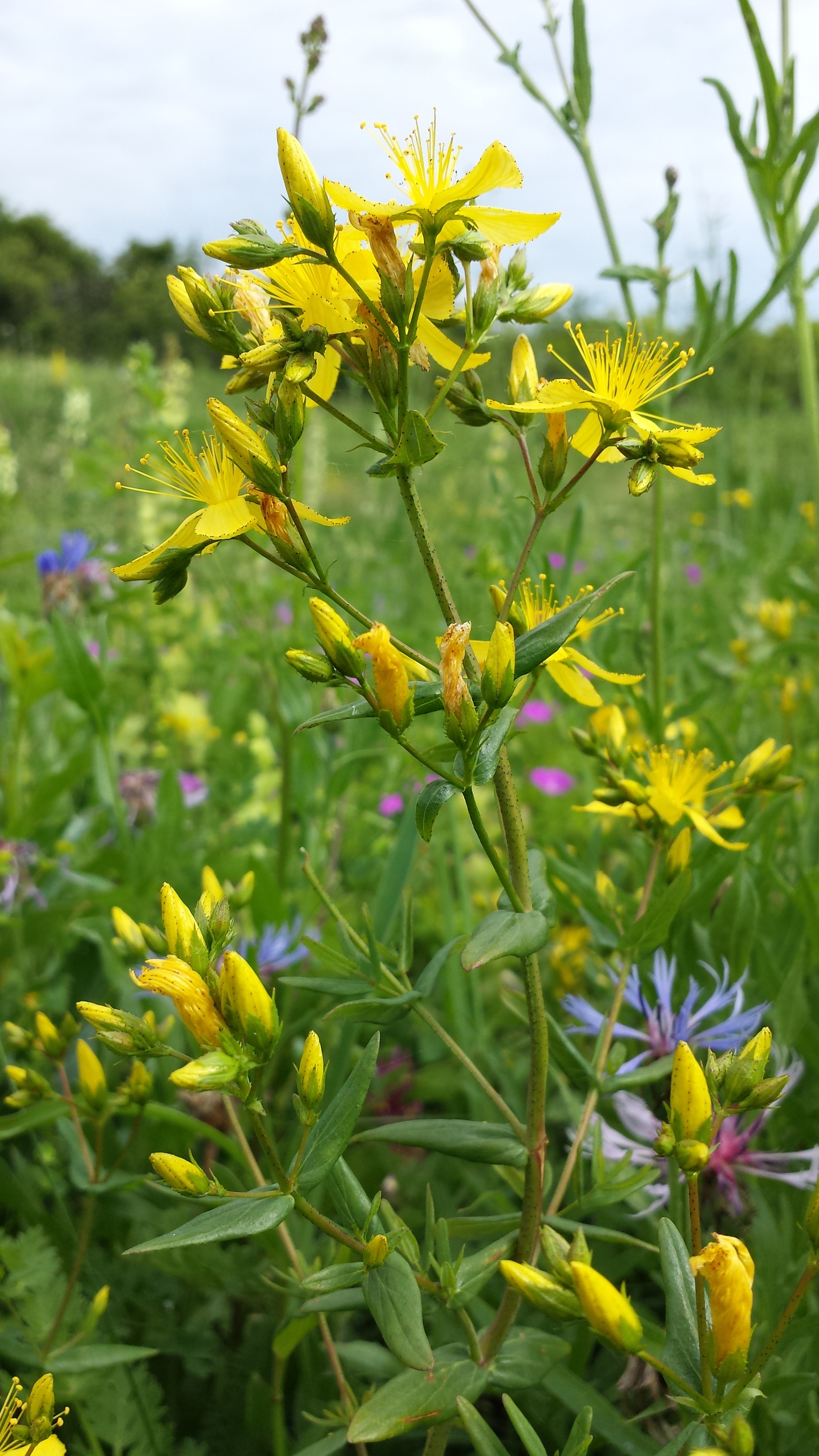 Taxon: Hypericum elegans (sensu Fischer et al. EfÖLS 2008) Location: natural monument gallows hill at Oberstinkenbrunn, district Hollabrunn, Lower Austria - ca. 340 m a.s.l. Habitat: dry grassland